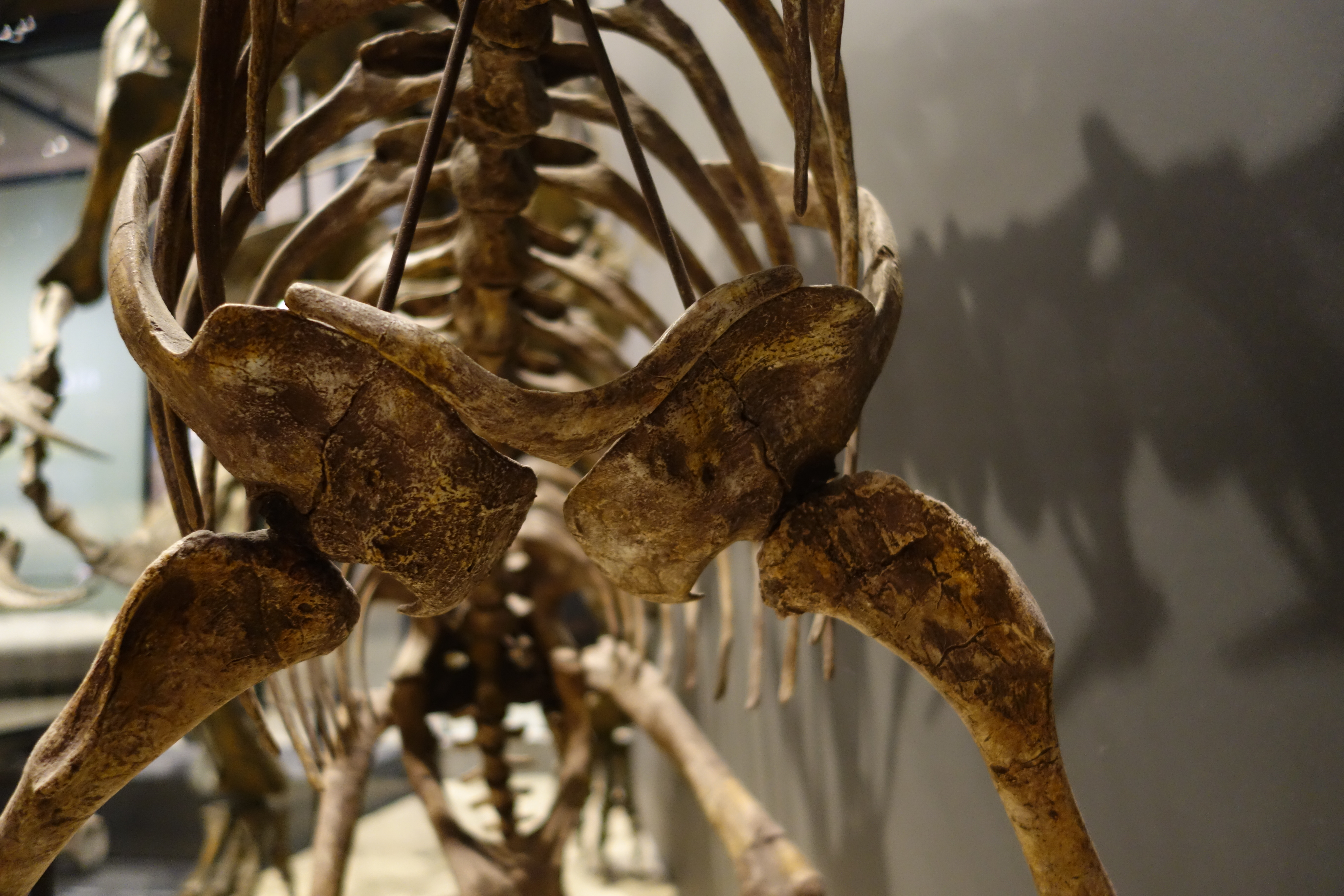 Falcarius skeletal cast, detail of chest region, on display at the Natural History Museum of Utah, Salt Lake City.